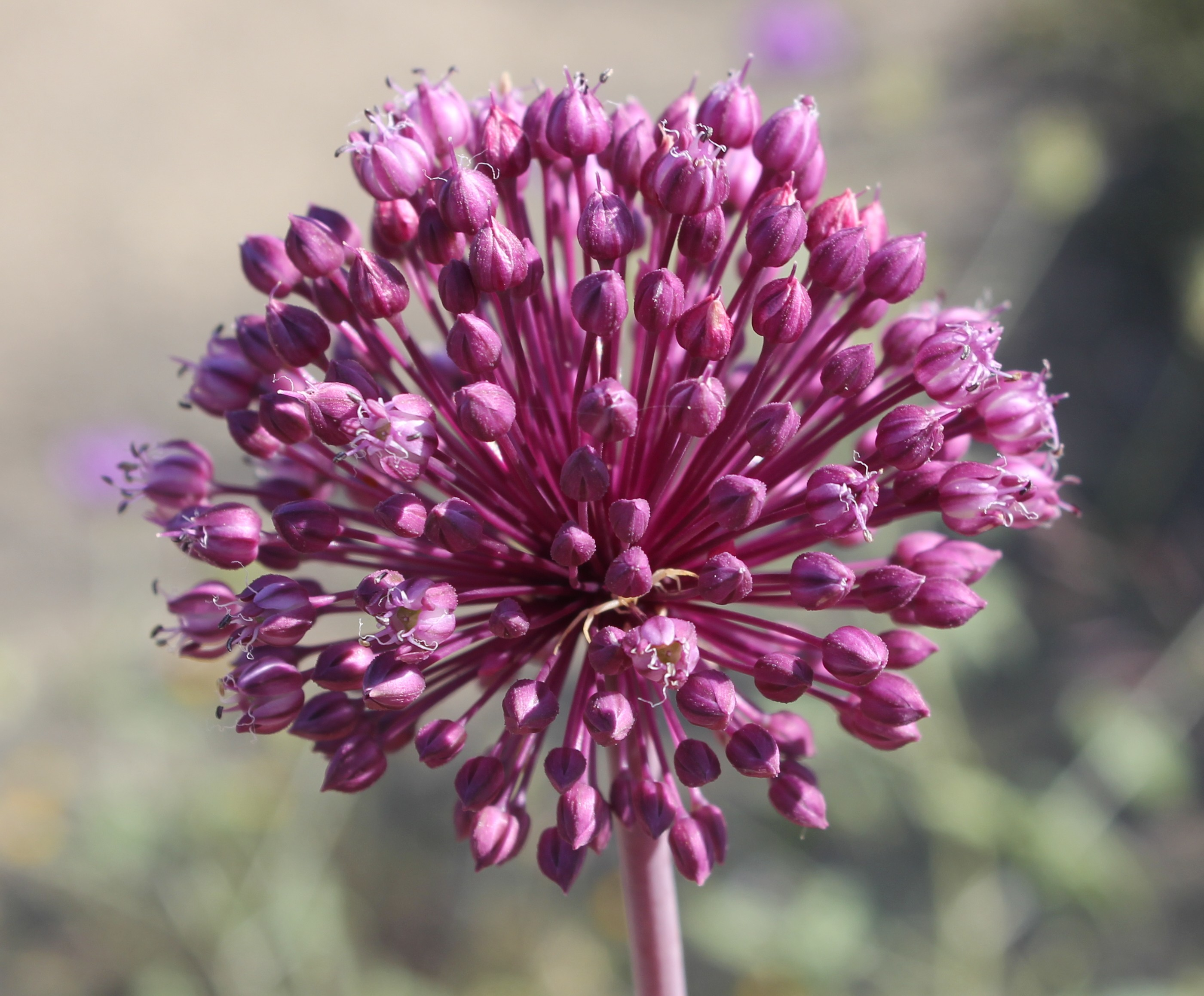 Allium ampeloprasum inflorescence